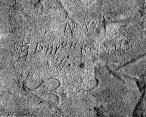 The Steppean Rovas inscription of Alsószentmihály village